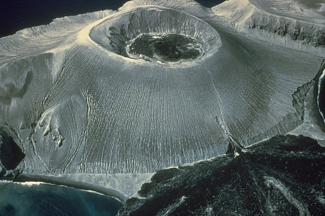 An aerial view from the SE shows the Bárcena tuff cone, constructed during an eruption in the Revillagigedo Islands off the western coast of México during 1952-53. The 700-m-wide crater is partially filled by small lava domes, and a fissure on the flank of the cone fed the black lava delta at the lower right.